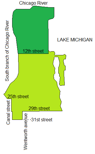 The boundaries of Chicago's 1st ward in 1893 (dark green) and 1946 (light green + dark green). 12th street was renamed Roosevelt Road in 1919.